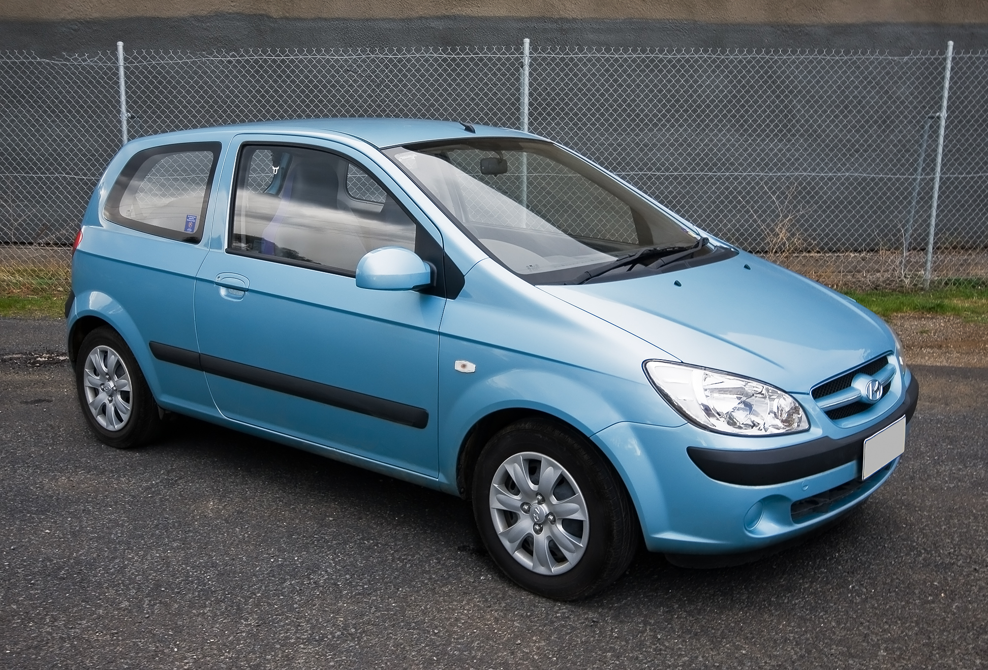 2006 Hyundai Getz (TB MY06) 1.6 3-door hatchback. Photographed in Tasmania, Australia.